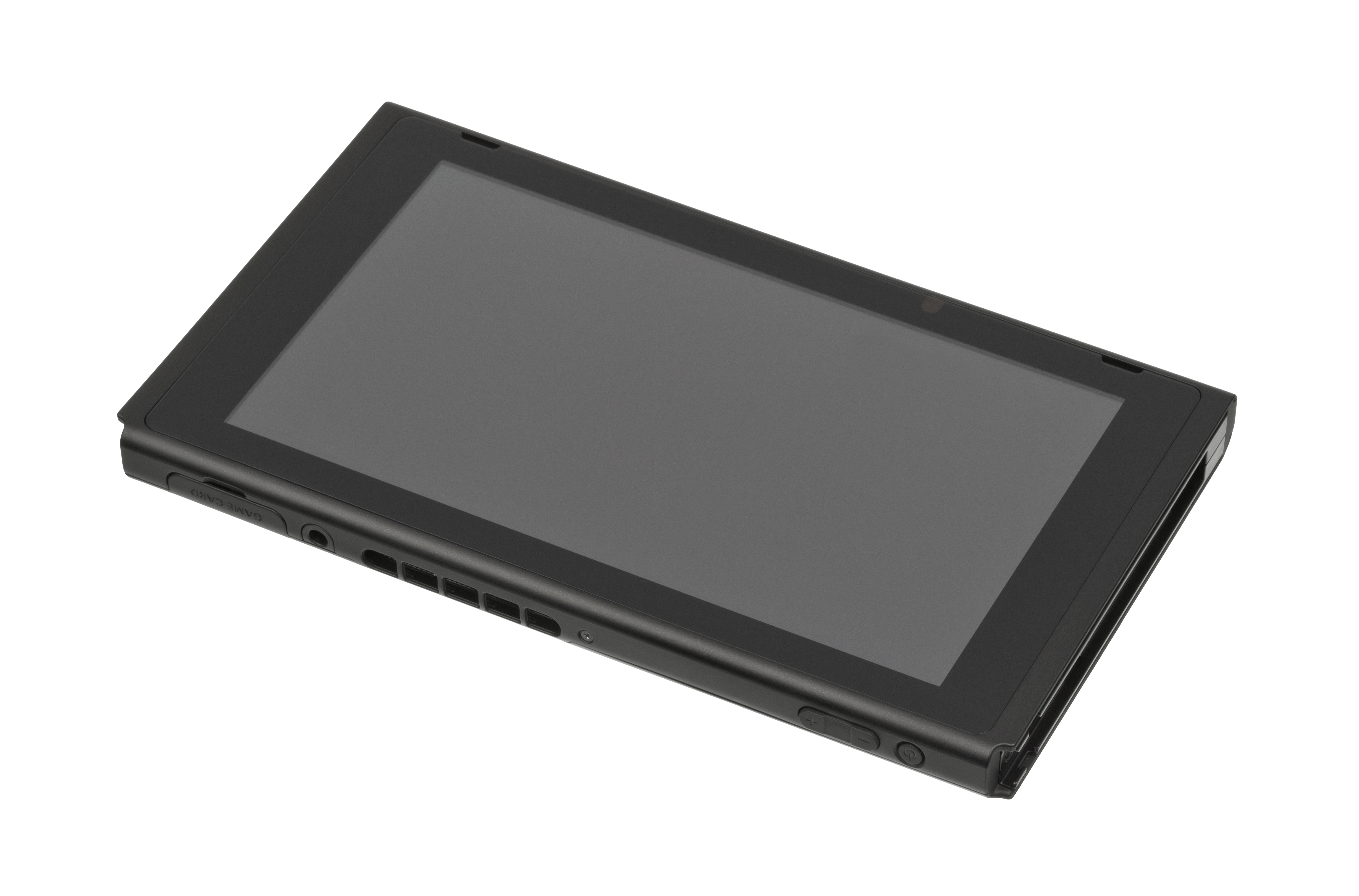 The Nintendo Switch, a hybrid portable/home console released by Nintendo in 2017. This picture shows the main console with the Joy-Con controller unattached.